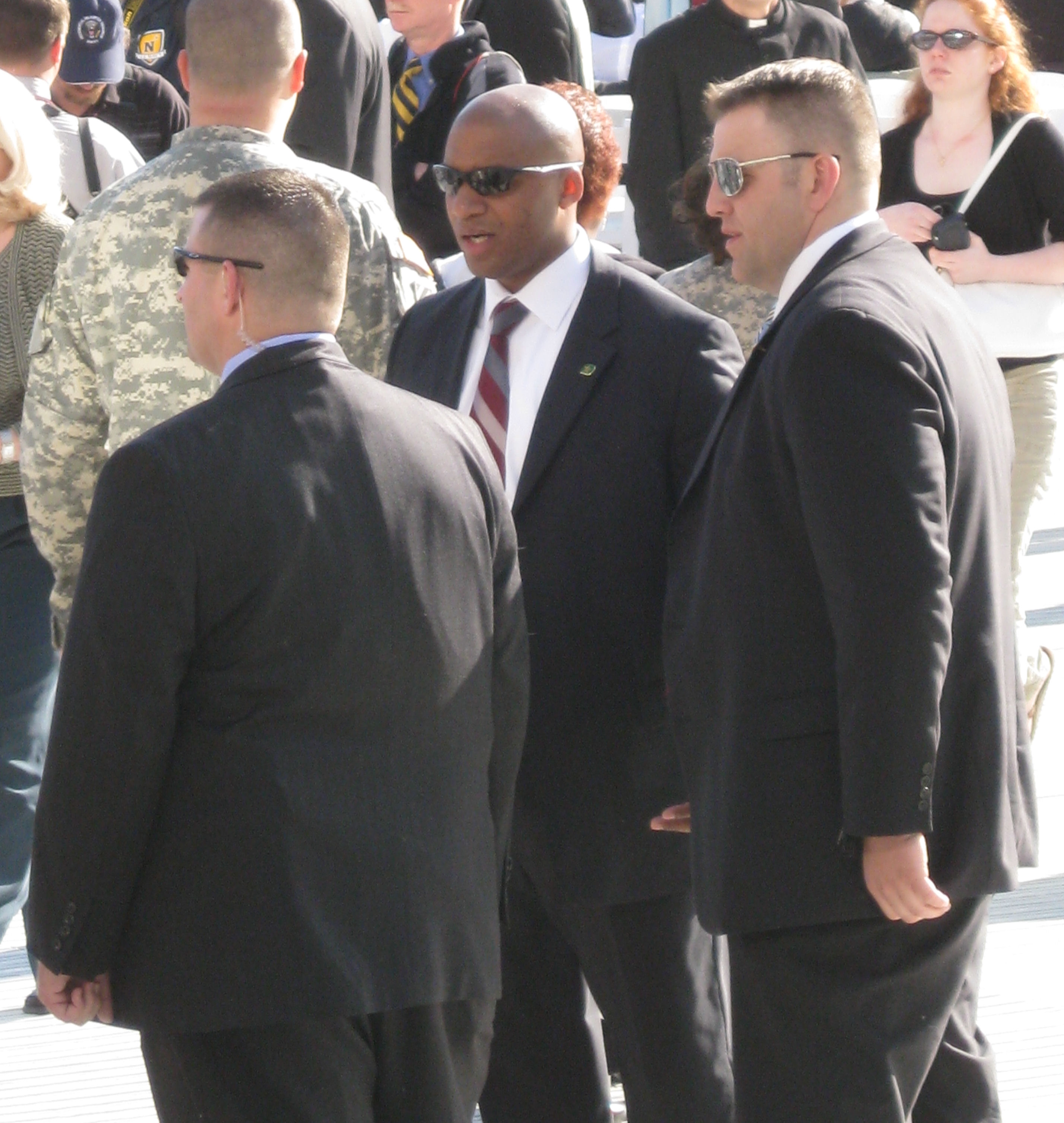 The US Secret Service provides security for Pope Benedict XVI at the Papal Mass in Washington DC on April 17, 2008.